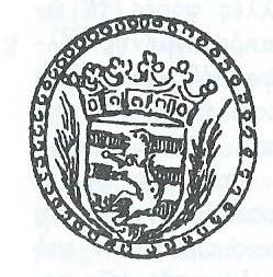 coat of arms, Sommaripa lords of Andros & Paros in Cyclades